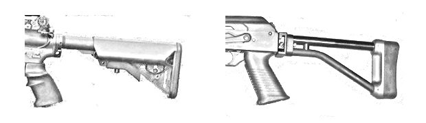 Military Buttstocks